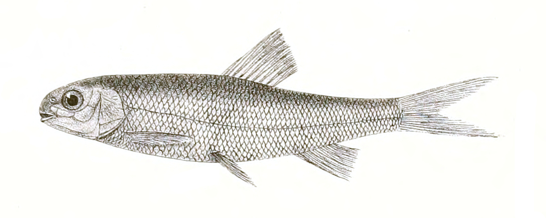 The species names / identity need verification - original names from plate are included here. The original plates showed the fishes facing right and have been flipped here. Aspidoparia Jaya